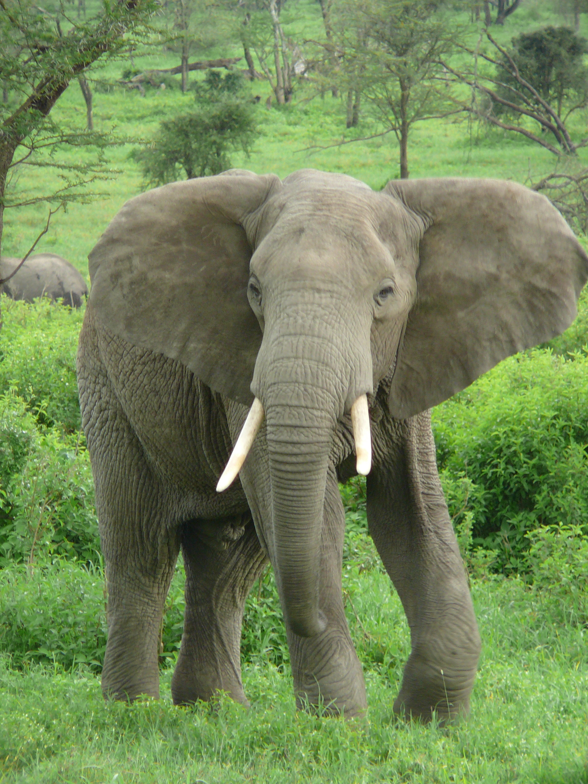 Original description from en: "Elephant picture taken near Ndutu Lodge on the border of the Serengeti and Ngorongoro Conservation Area in Tanzania. Thanks go to Alex, our guide, and Green Footprint Adventures.